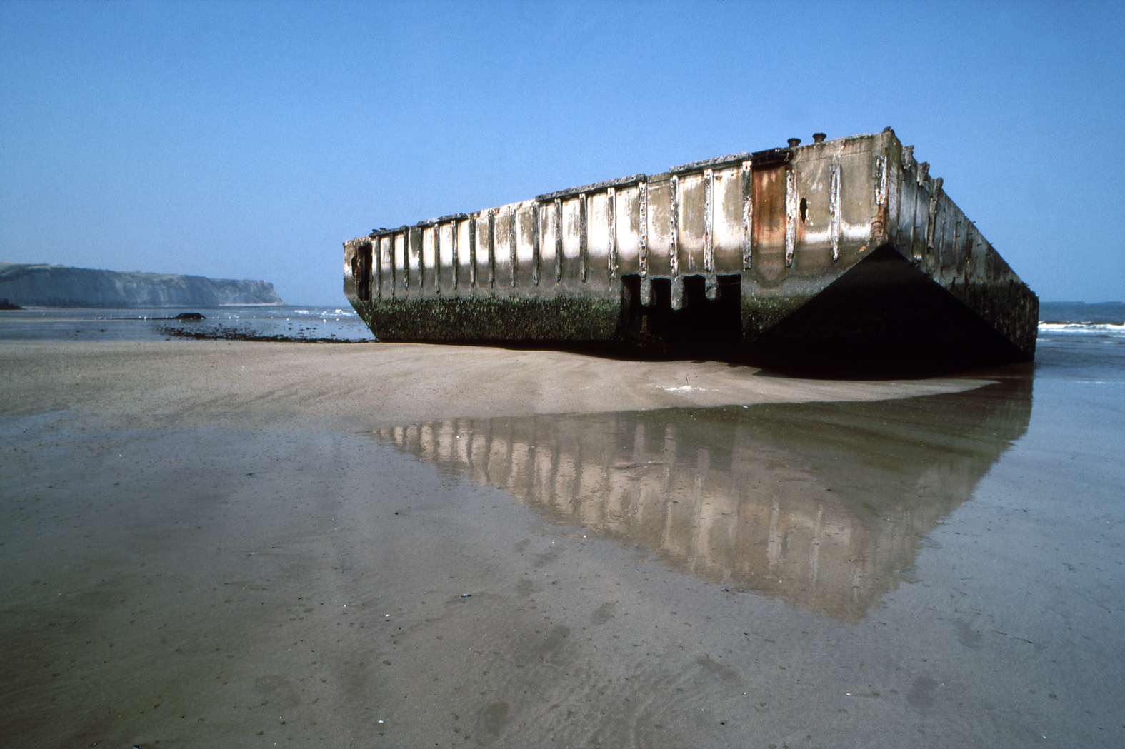 Spud-pier-pontoon of Mulberry Harbour B, in the background Cap Manvieux; Arromanches, Normandy, France